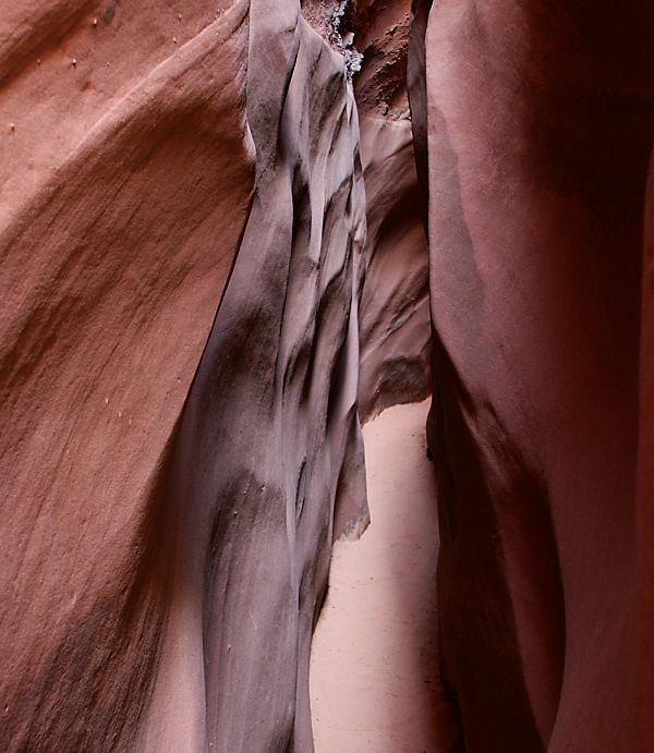 The walls of the deep slot canyon of Spooky Gulch, a branch of Coyote Gulch.